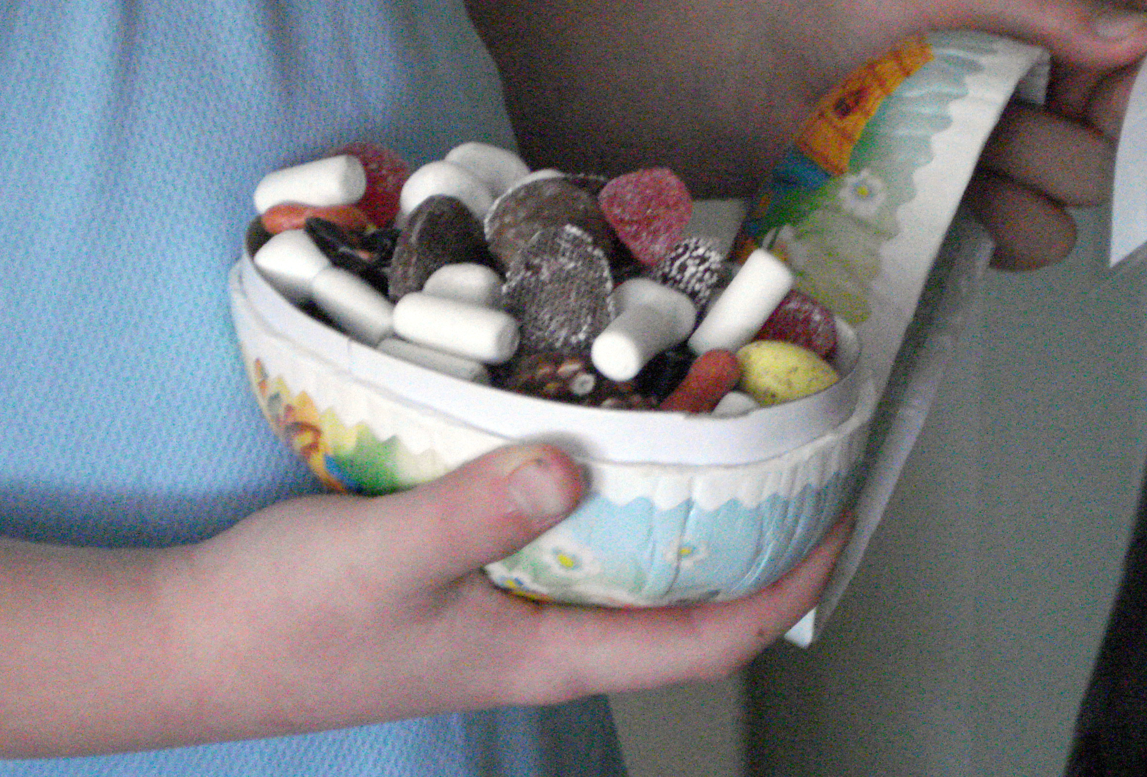 A typical Swedish easter egg made out of cardboard given to children during easter. Typically, some kind of treasure hunt is done to find it.